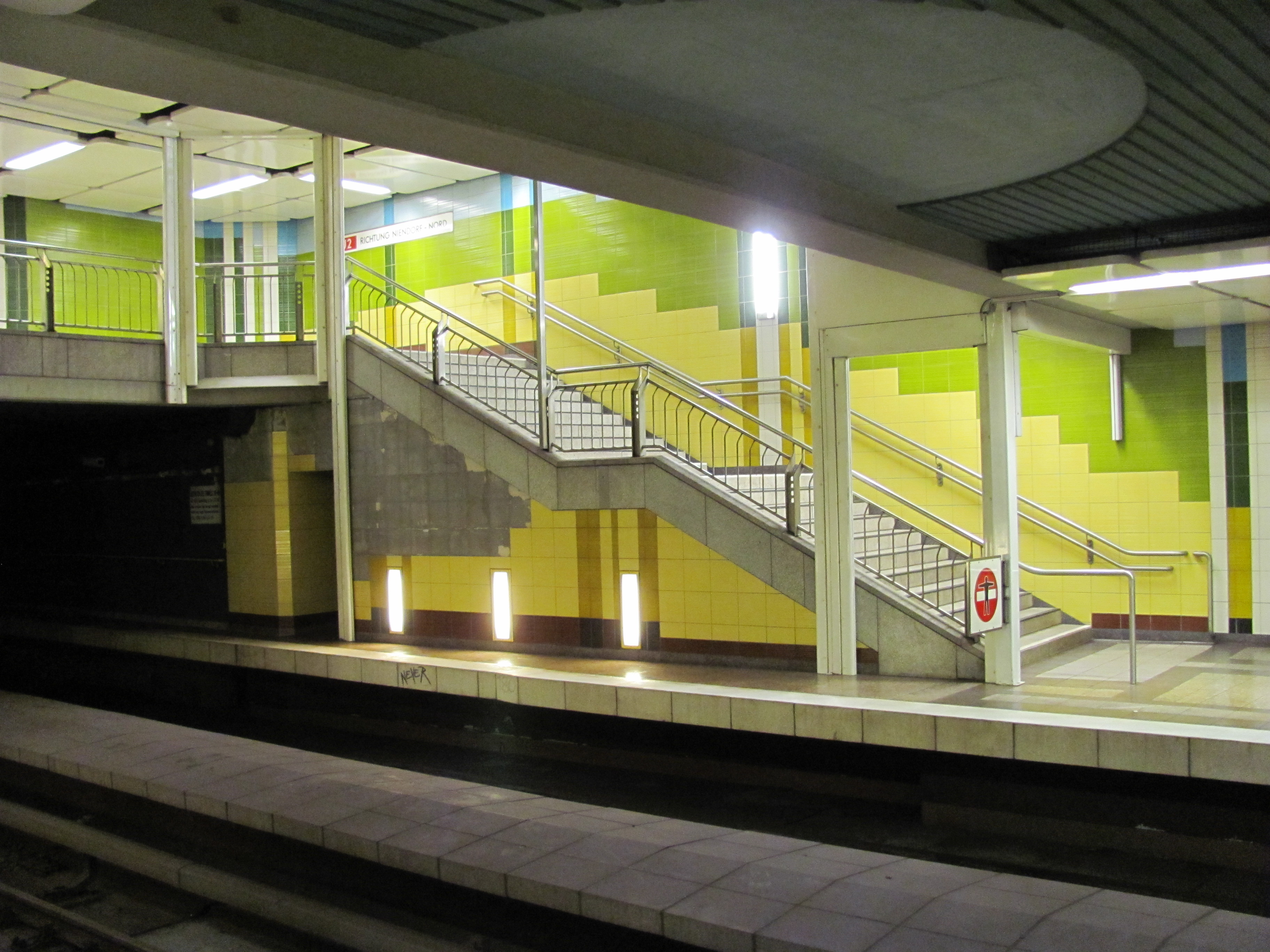 U-Bahn station Joachim-Mähl-Straße in Hamburg, Germany